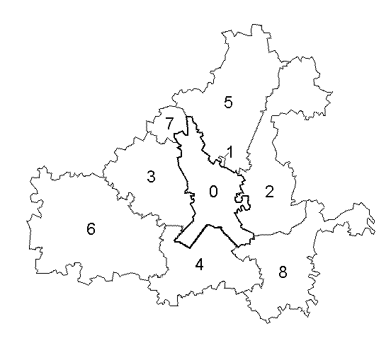 Municipalities of Yaroslavsky District